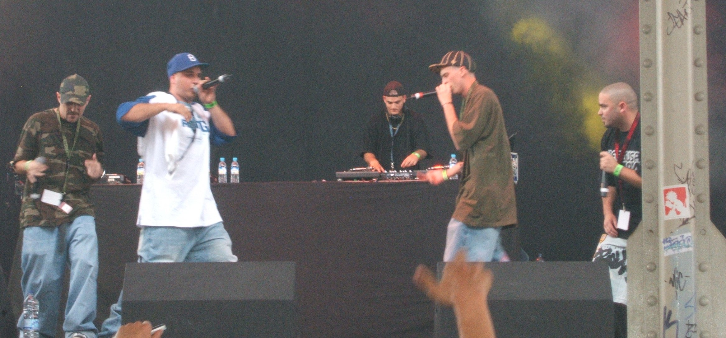 Dogma Crew is a spanish rap group.